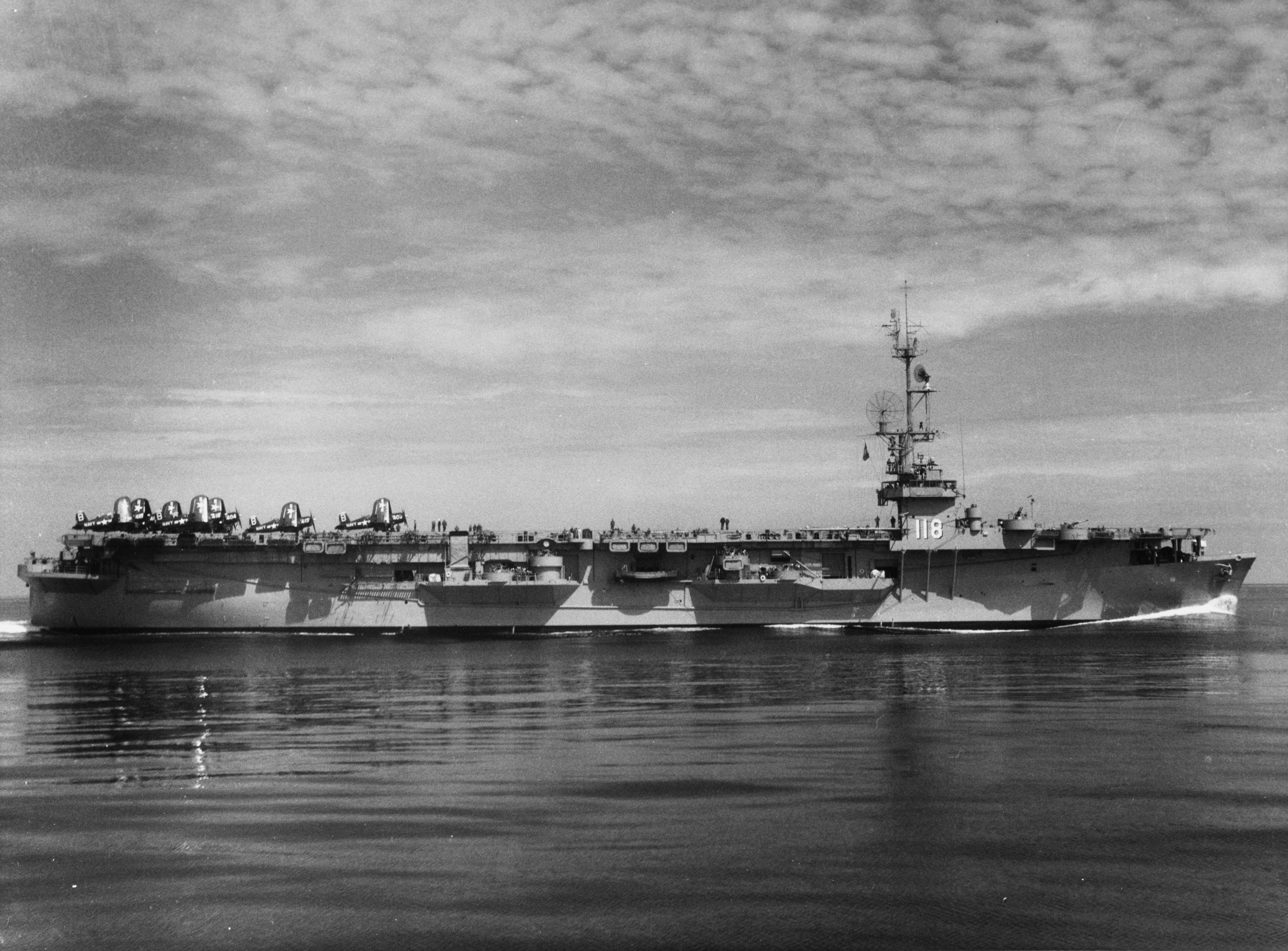 The U.S. Navy escort carrier USS Sicily (CVE-118) underway with Vought F4U Corsair aircraft parked aft, April 1954.